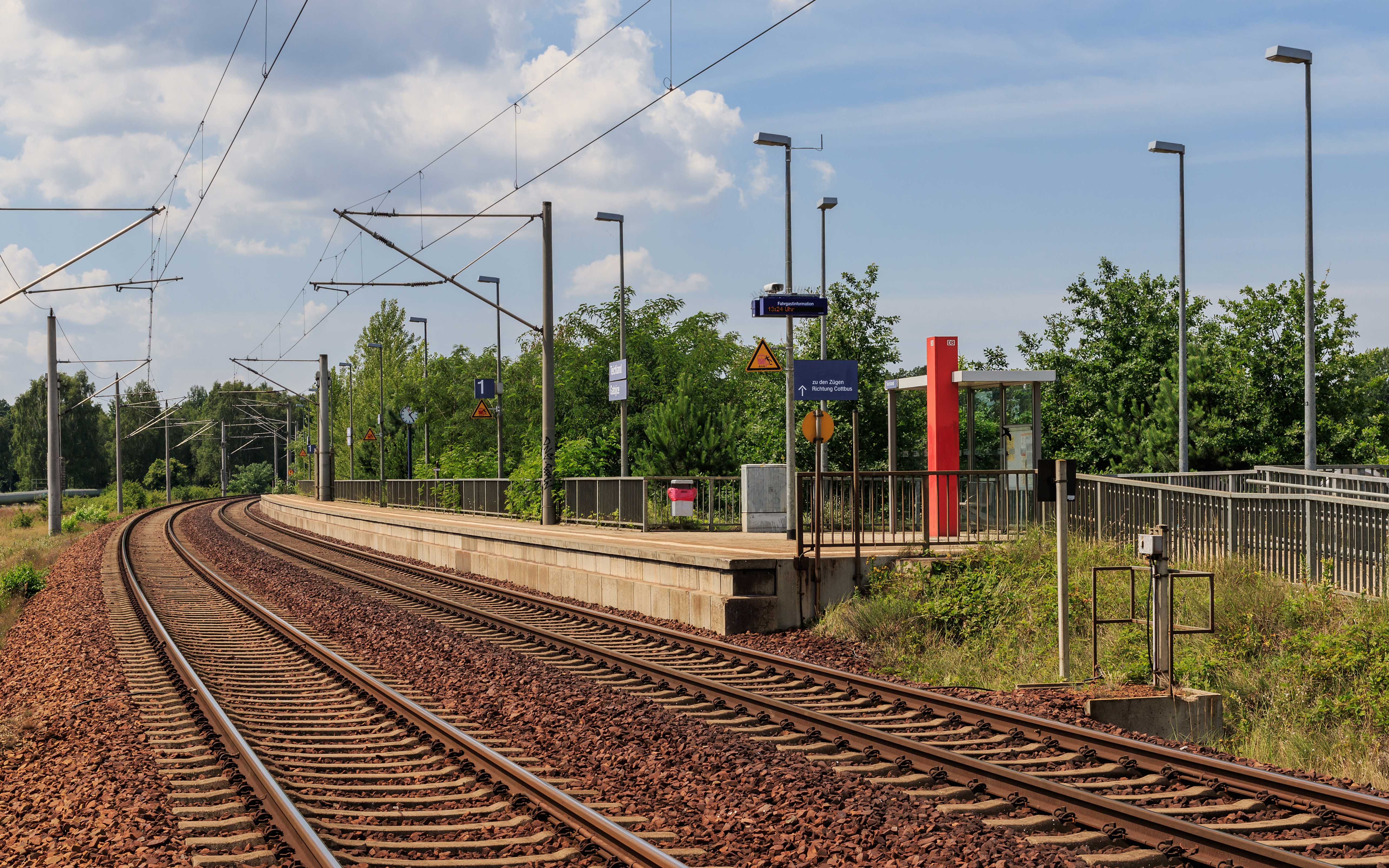 Teichland railway halt near Cottbus (Germany)